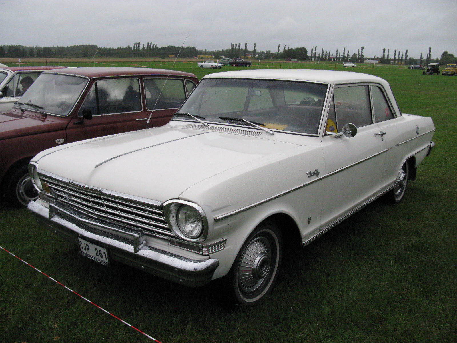 Chevrolet Chevy II 1964